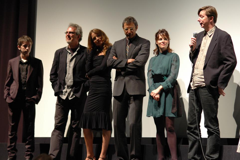 The cast of Fay Grim: Liam Aiken, Chuck Montgomery, Saffron Burrows, Jeff Goldblum, Parker Posey and director Hal Hartley